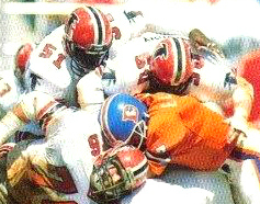 Atlanta Falcons's defensive linemen tackling Denver Bronco's quarterback John Elway during a 1985 game at Atlanta-Fulton County Stadium.